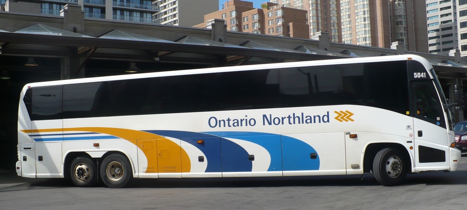 Ontario Northland #5041 wheels out of the Toronto Coach Terminal heading for Timmins